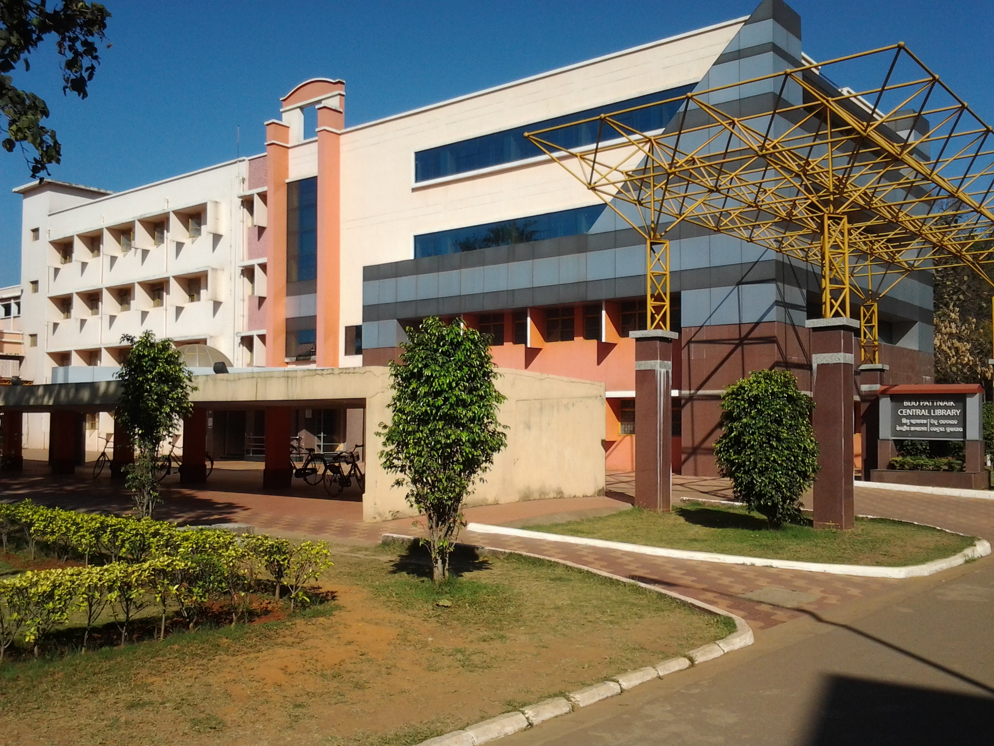 The Biju Patnaik Central Library(BPCL) of the institute